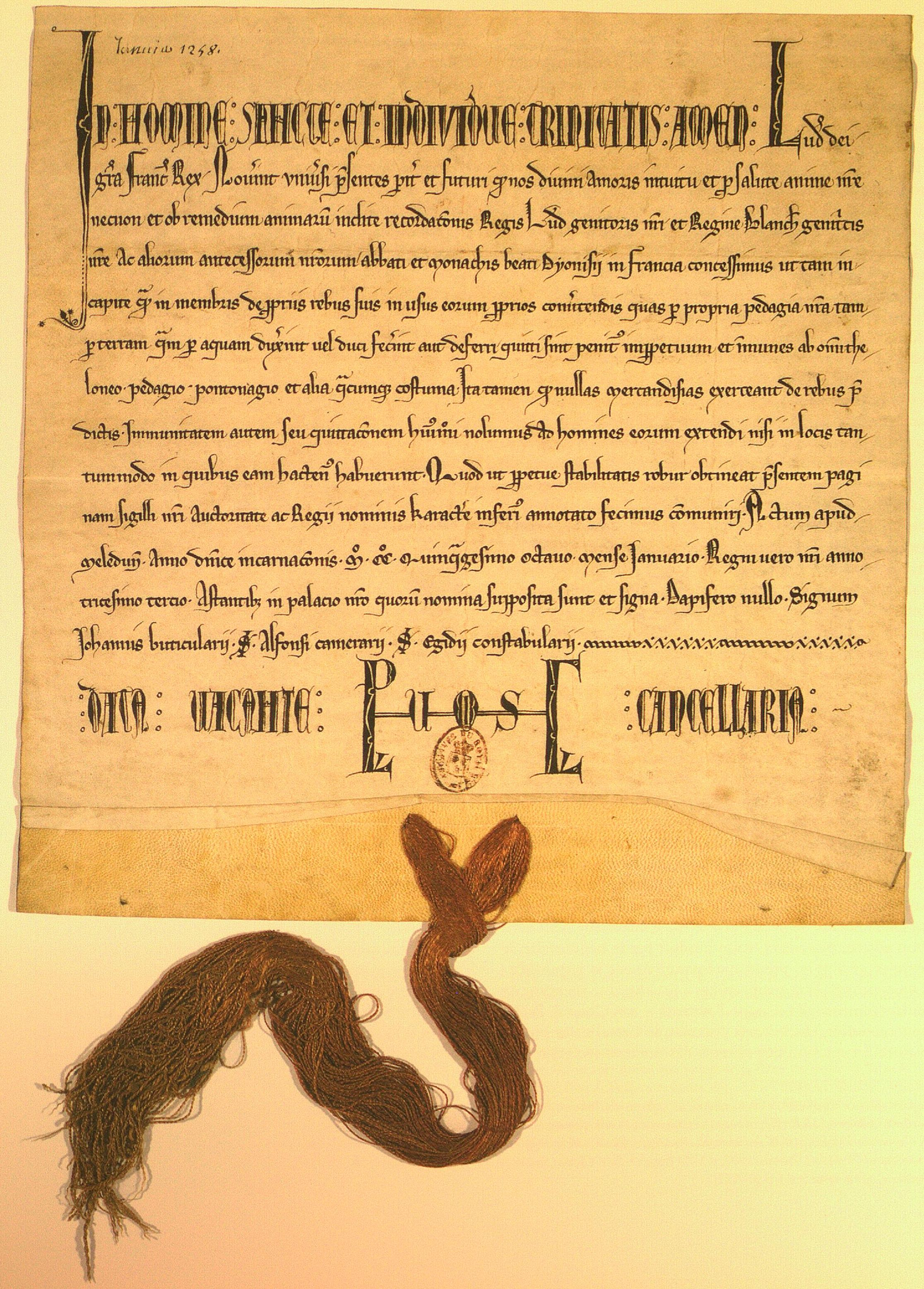 A charter of King Louis IX for the abbey of St Denis. Paris, Archives nationales, K 31, No. 11.